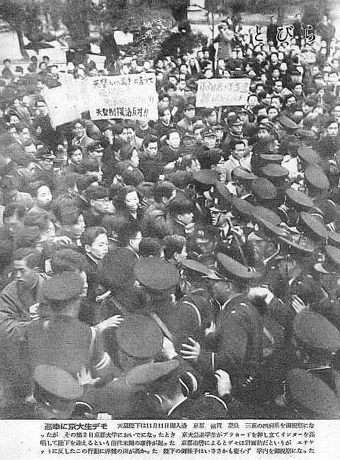 Mainichi Graphic clipping (1 December 1951 issue)